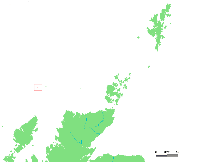 Location of Sula Sgeir, UK